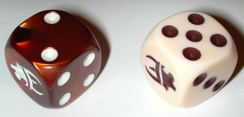 Dice for Game Munchkin